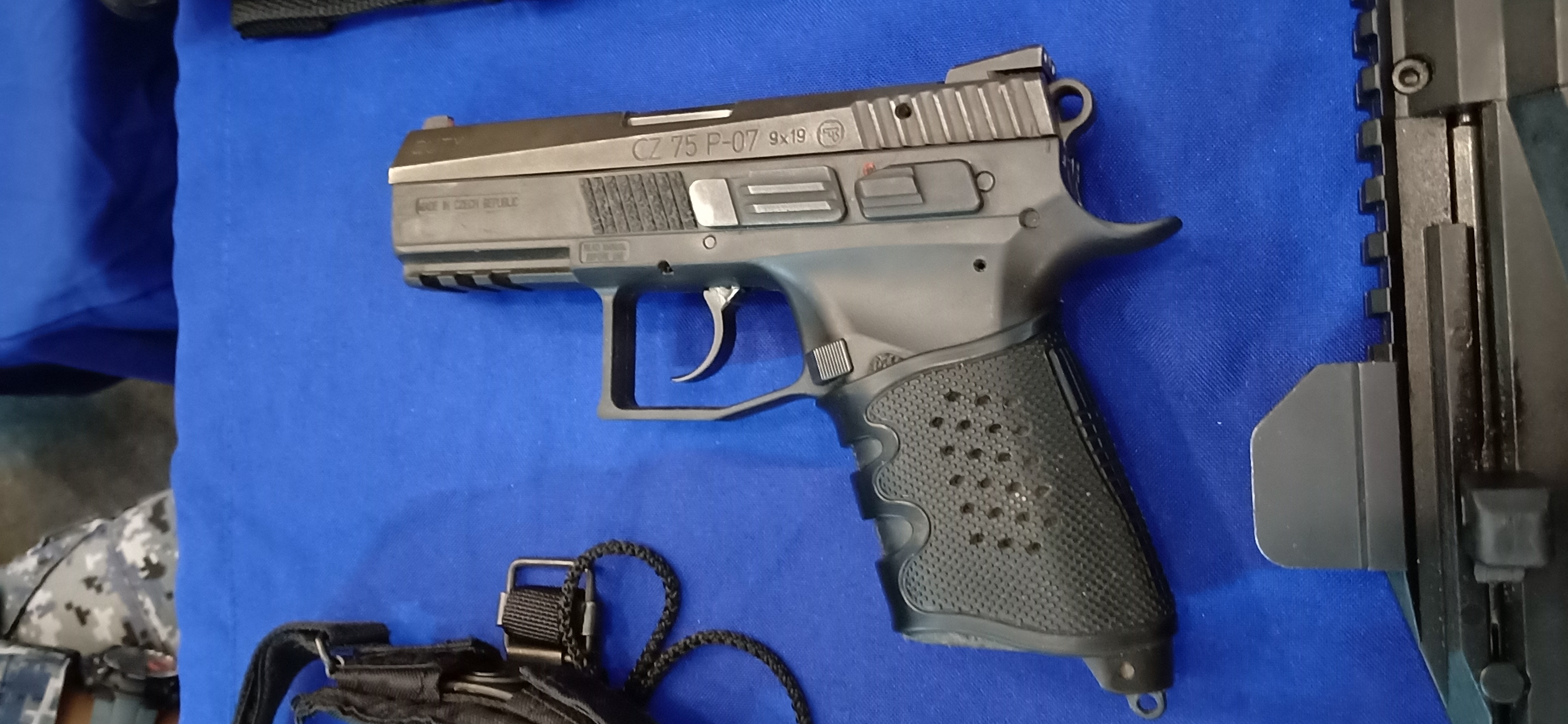 The CZ-75 P-07 Pistol of the Philippine Coast Guard (PCG) made by the Czech company CZUB. Photo taken during the 2018 Asian Defence and Security (ADAS) Trade Show at the World Trade Center in Pasay, Metro Manila.